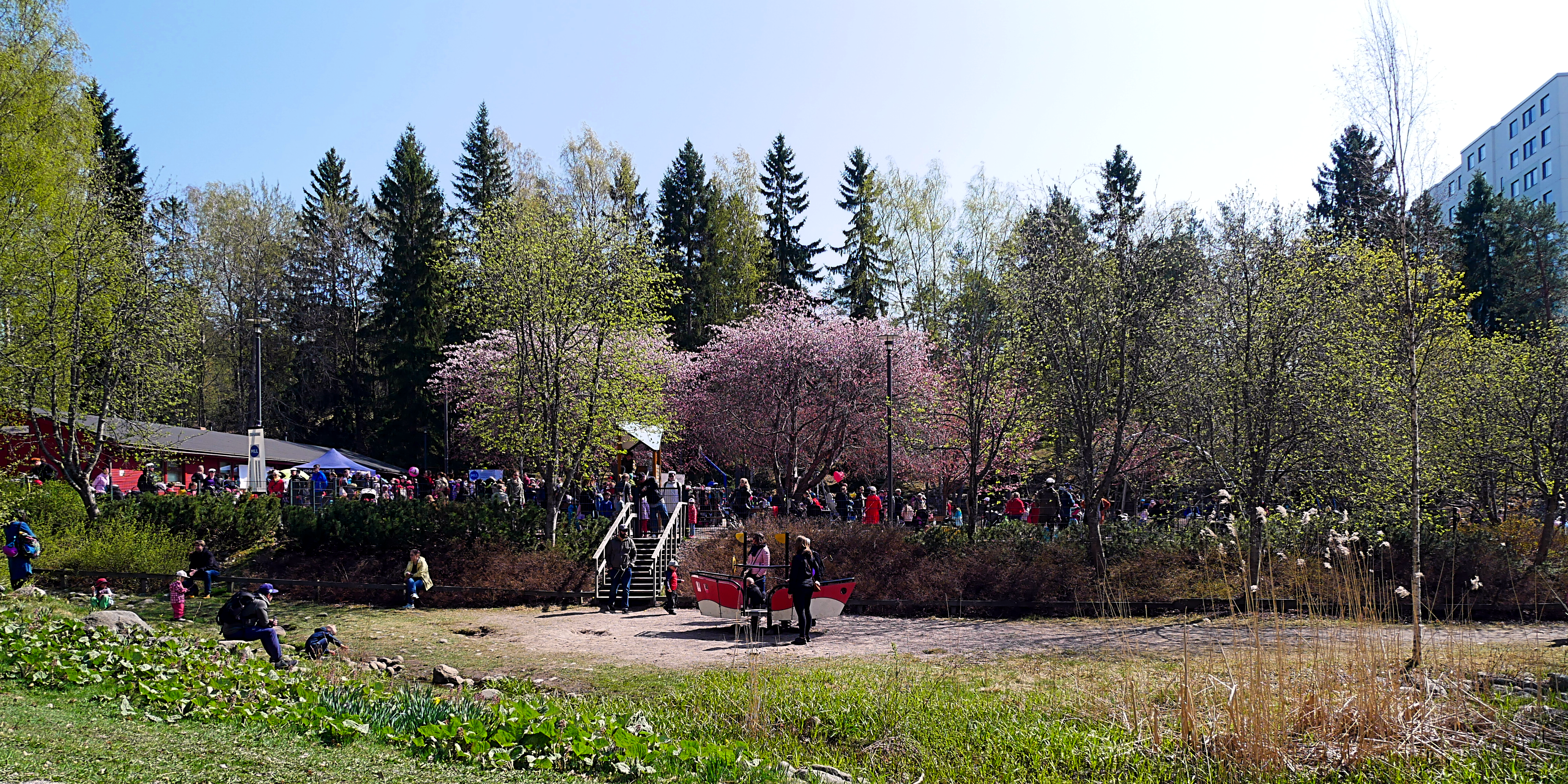 The park Puropuisto in Soukka, Espoo, Finland. Spring of 2019.